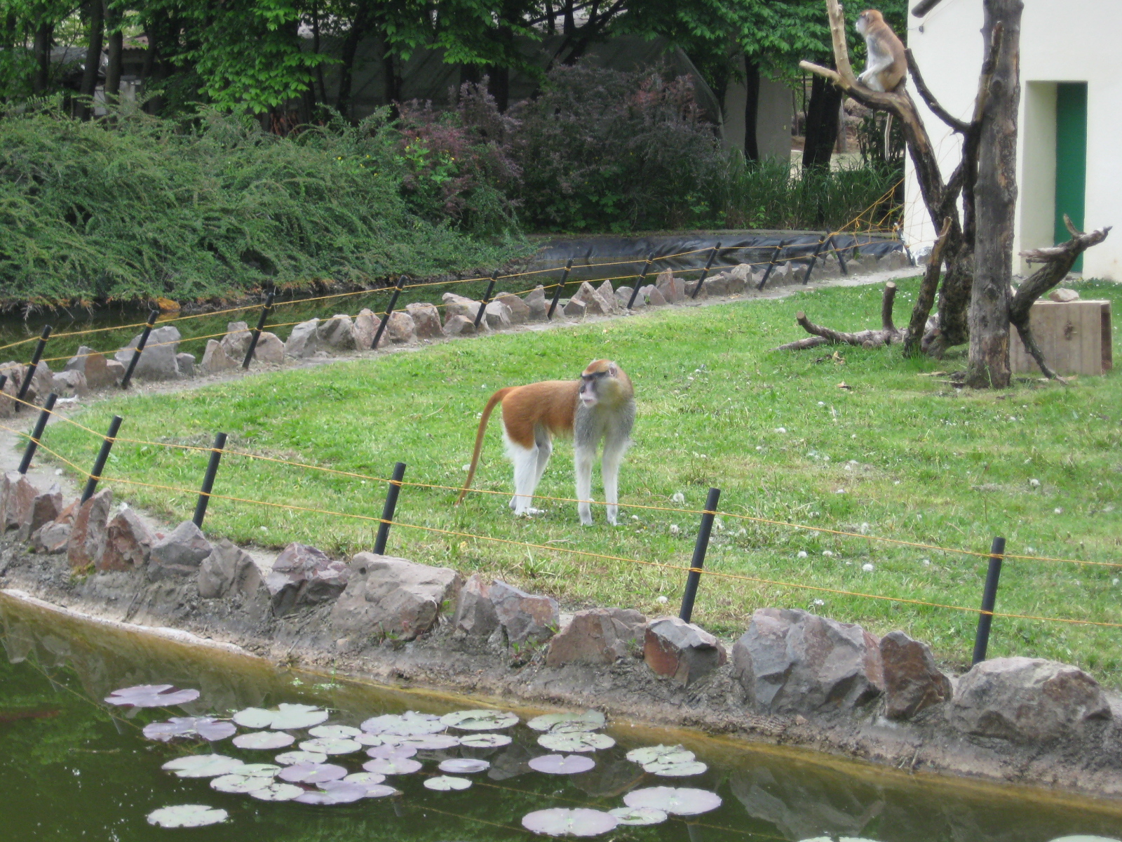 Monkey in Palic zoo